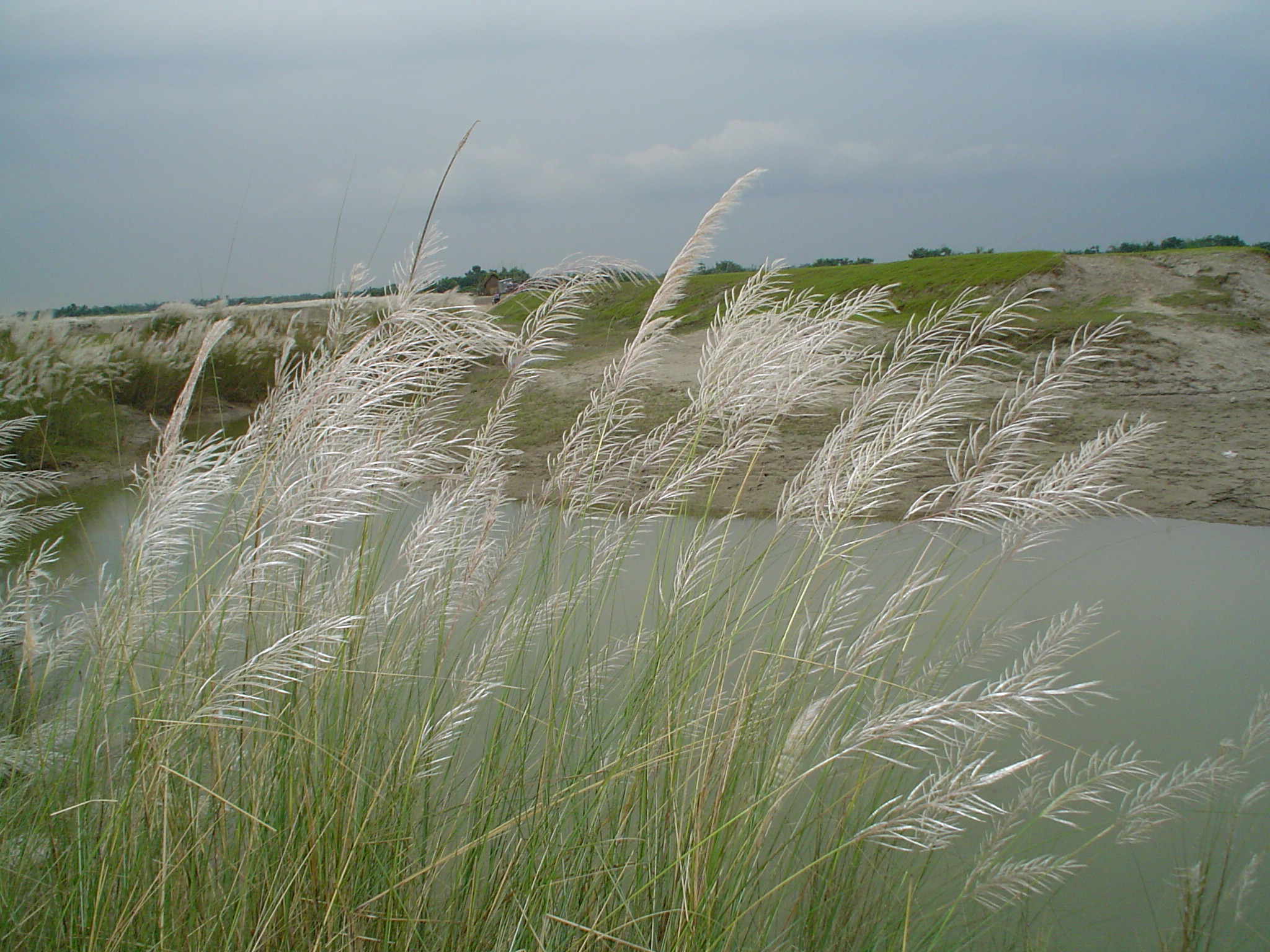 Kash, a Bangladeshi flower blooms during Autumn, is found at the sandy beaches (Char) of rivers. This Image was taken from Dharala River of Kurigram District.